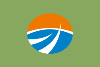 Flag of Omaezaki Shizuoka